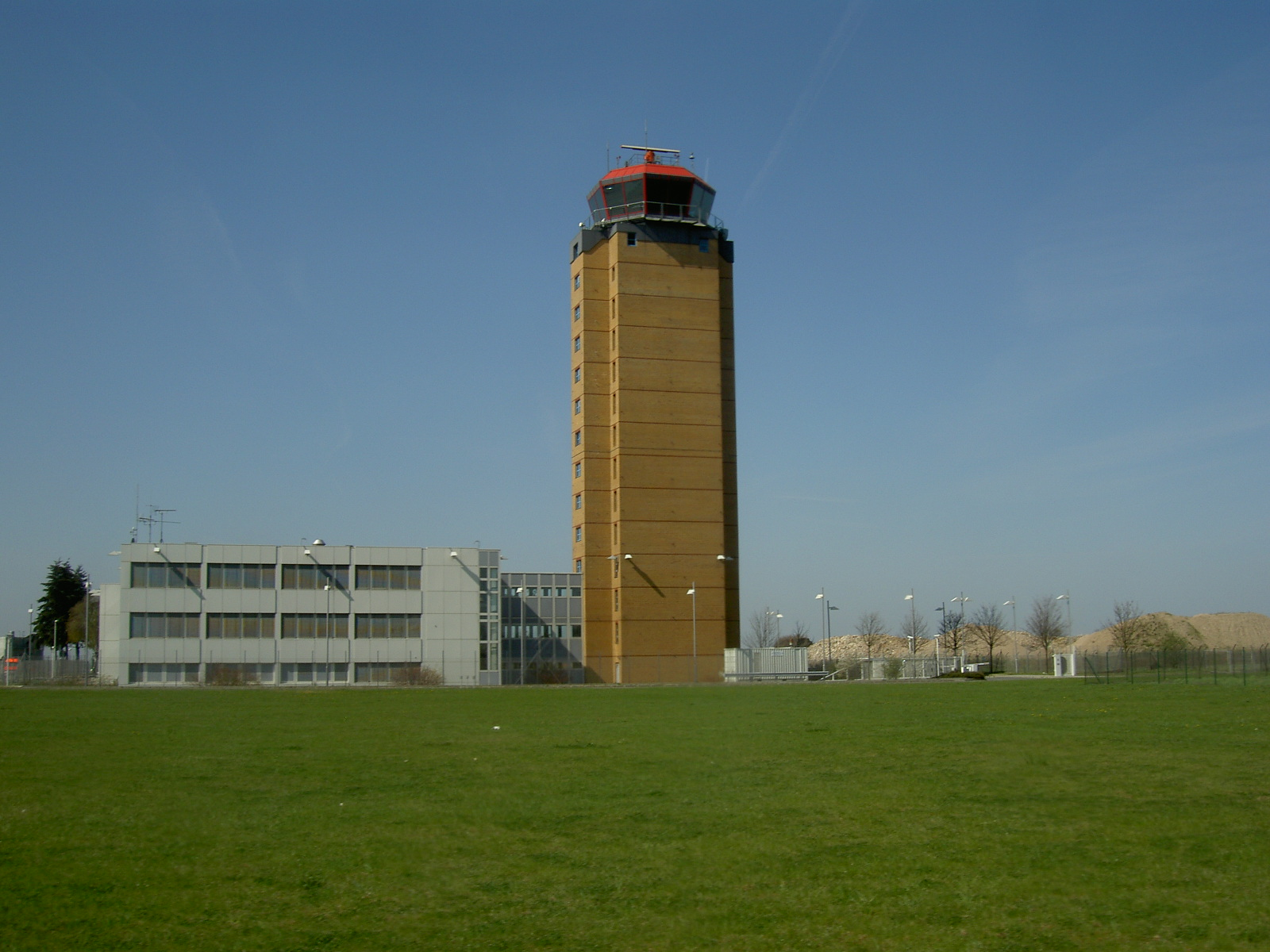 Schönefeld International Airport - Tower